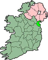 map of County Louth, Ireland 08:06, 5 February 2004 Morwen 200x249 (30636 bytes) (map)